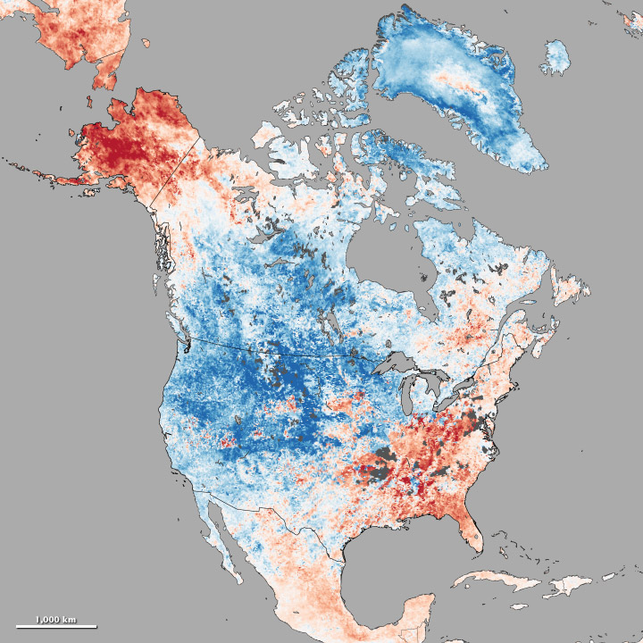 Deviation of normal temperatures in Northern America, from 2013-12-03 to 2013-12-10. Blue is colder, red is warmer